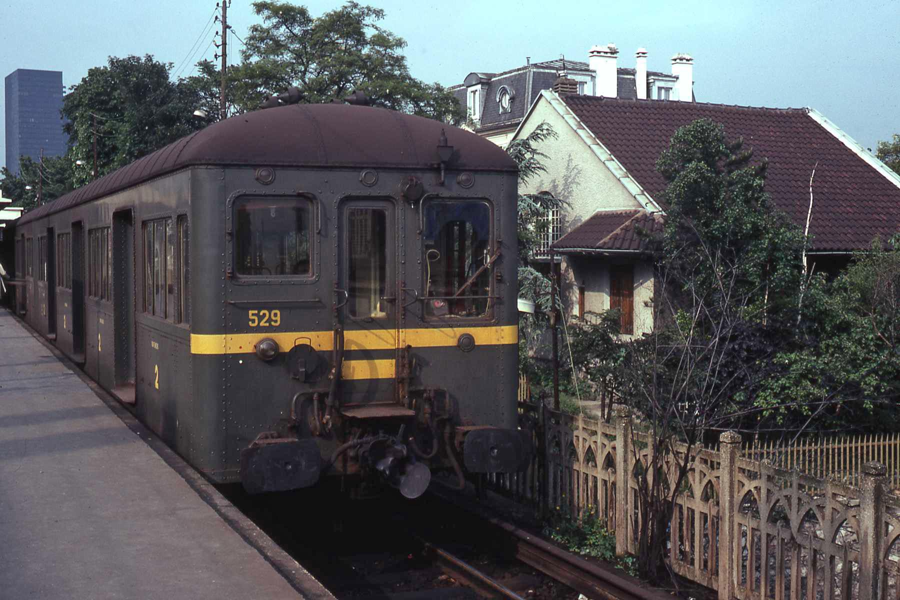 Third rail "standaard" electric train at the Puteaux terminus of the Puteaux Issy-Val de Seine line.